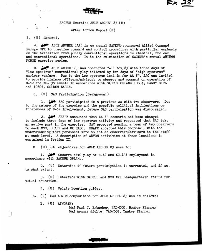 The first page of the Seventh Air Force After Action Report on Exercise Able Archer 83. US Government document, no copyright.